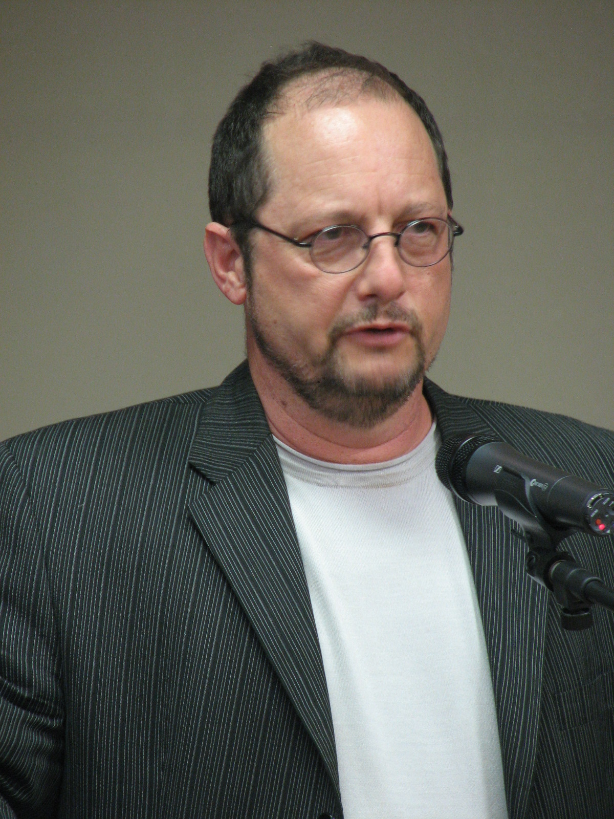 Bart D. Ehrman